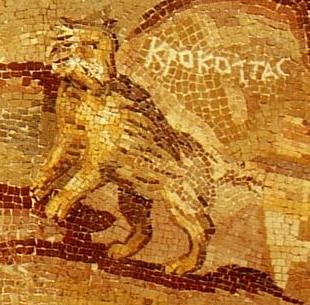 Detail of Nile mosaic from Palestrina (section 3). Museo Nazionale Palestrina, Italy. The animal depicted is a striped hyena, as identified in Folger's (2010) Hyaena.